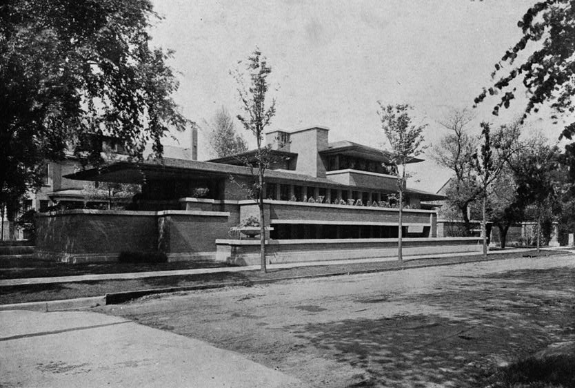 Frederick C. Robie House, Chicago, Illinois - south facade.